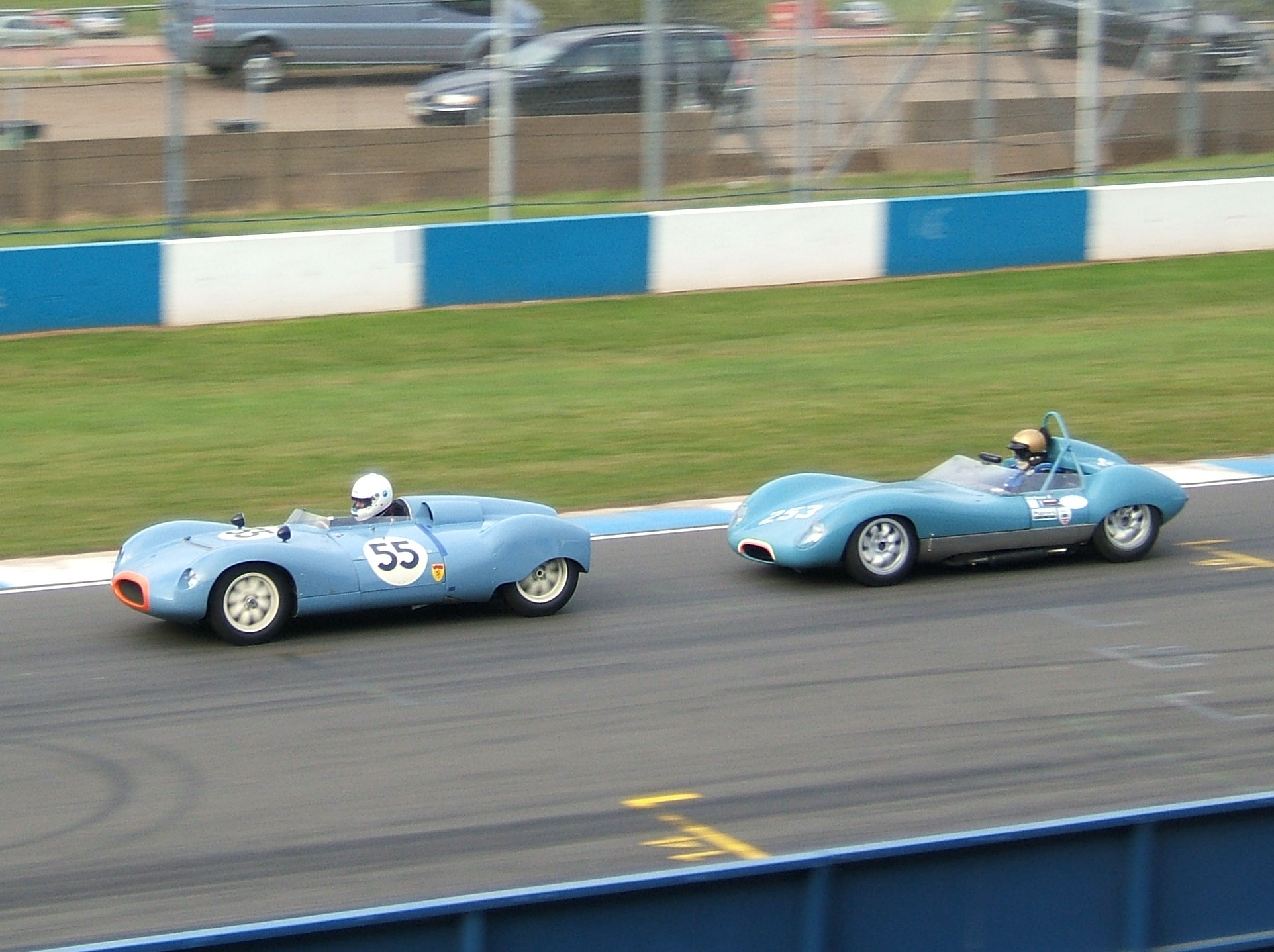 Simon Diffey in his Lola Mk1 (#253) harries Adrian van der Kroft's Cooper T39 (#55), a close contest that would last for over three-quarters of the race, eventually decided in the Cooper's favour. During the VSCC SeeRed race meeting, Donington Park, September 2007.